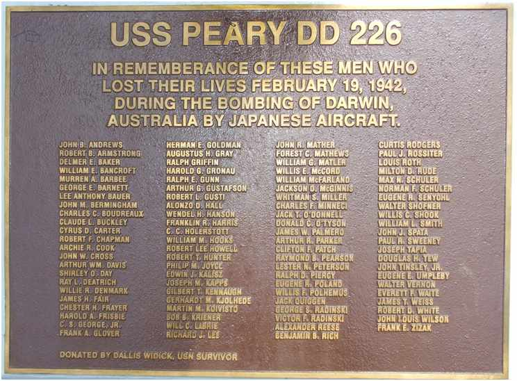 A roll of honour, which omits the names of: Lawrence Jackson Cross, Chief Gunners’ Mate 320-59-69 of Seattle, Washington. MIA 19 February 1942 Russell Eldon Keener, Carpenter’s Mate 1st Class 393-13-07. Son of George Hampton Keener of Yakima Washington. MIA 19 February 1942. The Plaque includes these names in error: Ensign Calvin S. George Jnr. retired from the Navy in 1946 Frank A. Glover Seaman 2nd Class 274-47-08, was rescued by an Australian motor boat on 19th February, and remained AWOL for 18 months, before surrendering himself in 1943. He was serving on YMS-46, a Yard Mine Sweeper in February 1944. Alonzo Denison Hall Machinist’s mate 2nd Class206-96-23, was wounded on 10th December 1941 in Cavite in the Philippines. He survived being a POW of the Japanese. He was the son of Alonzo B. Hall of Normandie Ave. Los Angeles, California John Tinsley Jr. Torpedoman 2nd class 380-78-02, was wounded at Cavite Navy Yard on 10 December 1941, and survived being a POW of the Japanese. He was repatriated from Manila 15 September 1945. He was the son of John Tinsley Snr. of 309 10th St. Huntington Beach, California. Robert Doyle White Machinist's Mate 2nd Class 268-34-15. Enlisted Macon Georgia 17 Jan 1939. Served on Peary from 28 April 1940. Transferred to Naval receiving station 31 March 1942 from USS Langley via USS Mt. Vernon. .Joined USS PC 563 on 18 June 1942. Discharged from LSM 423 September 1945 Other errors on the plaque John R. Mather should be John Raymond Mathews Ship’s Cook 2nd Class 382-09-38 Forest C. Mathews should be Forest Cortland Matthews Watertender 1st Class 371-65-85 William G. Matler should be William Granville Mailer Yeoman 2nd Class 283-42-32 James W. Palmero should be James William Palermo Fireman 2nd Class 223-88-16 George S. Radinski should be George Smith Radzinski Machinists Mate 2nd Class 375-97-32 Victor F. Radinski should be Victor Frederick Radzinski Machinists Mate 2nd Class 375-96-97